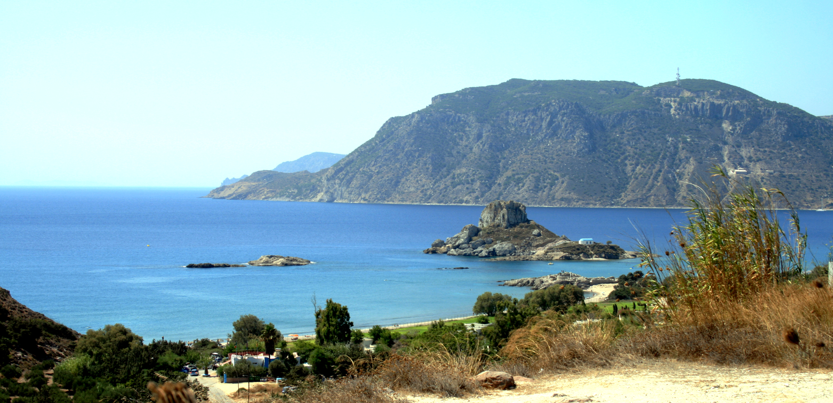 View on small island Kastri and beach near town Kefalos on Kos island (Greece)